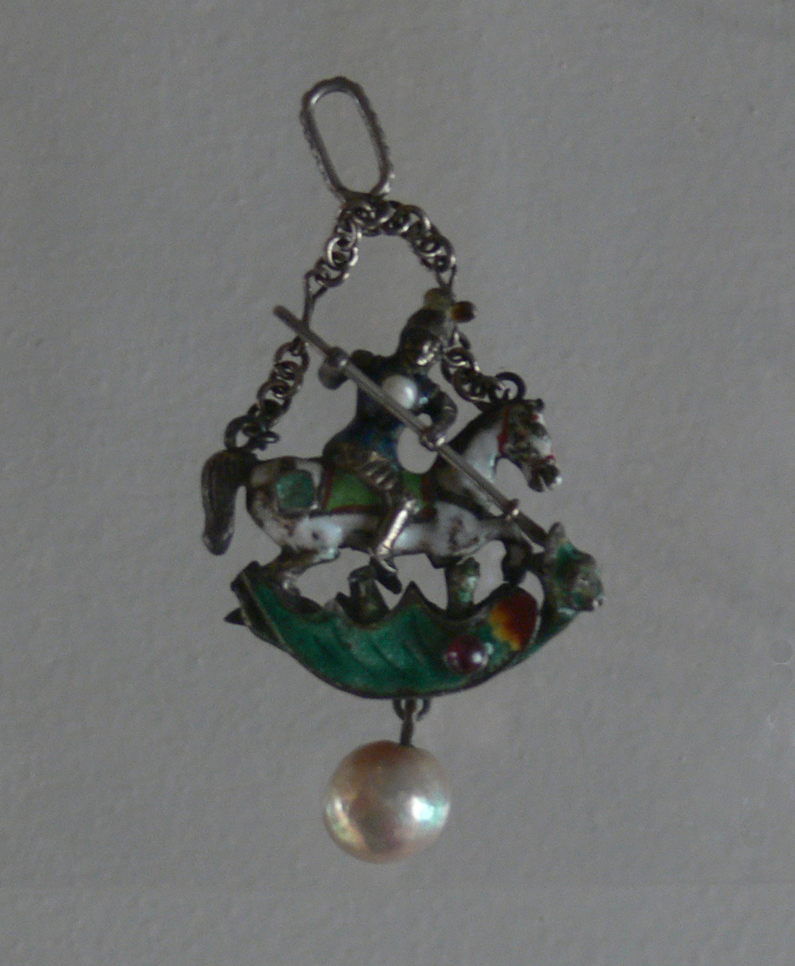 Symbol of the knights of Saint-Georges (Burgundy). Beginning of 19th c. Vesoul, musée Georges-Garret, inv. 990.3.1. Don des amis du musée 1990